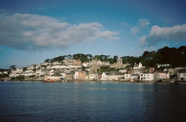 Fowey. The harbour waterfront looking towards the Town Quay. Behind is St Fimbarrus Church (named after St Finbarr who passed through the town many hundreds of years ago). The distinctive tower to the right of the church is on Place House where the Treffy family have lived since the 13th Century.